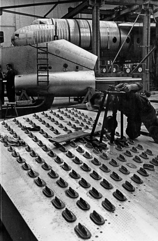 Dresden aircraft factory, hydraulic system Central picture / Kießling 20.10.58 Our aircraft industry has world level Three years ago, a separate aircraft industry was set up in the GDR near Dresden. It began the licensing of the "IL-14" in series, which became known in many European cities, since it is bought by Polish, Hungarian, Bulgarian airlines and deployed on their airlines. Of course, the "IL-14" also runs on all lines of Deutsche Lufthansa in the GDR. But that did not satisfy our aircraft manufacturers. Within a half year, 400 design engineers produced 40,000 drawings for the construction of the "152" jet turbine airliner. 60,000 parts lists were filled in, and 3,000 devices and devices were custom-made. 800.00 rivets had to be processed to connect the myriad of metal parts. In the airframe of the "152", 23 kilometers of electric cables with 18,000 small screws and an additional 15 kilometers of electric cables for the flight measurements on the first flight were laid by the electricians. And all of this was created in an unlikely short time. Such is the supremacy of the socialist system in the GDR against the capitalist in fact. Our enemies are also admitting this, as for example the conservative English newspaper "Times", which described our "152" as the Sputnik of the GDR. U.Bz .: Specially developed hydraulic systems with a compressive and tensile force subject the model of a machine built this type of "152" all sorts of stress and relocate the conditions of the flight in the hall.- The vertical stabilizer is provided with steel fittings. They serve as starting points for the tongs of the enormous hydraulic tearing machines.